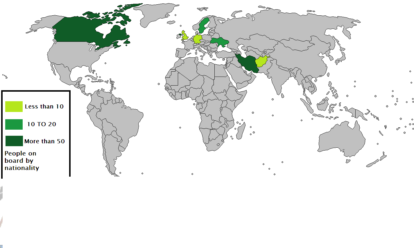 Nationalities of Ukraine International Airlines Flight 752.